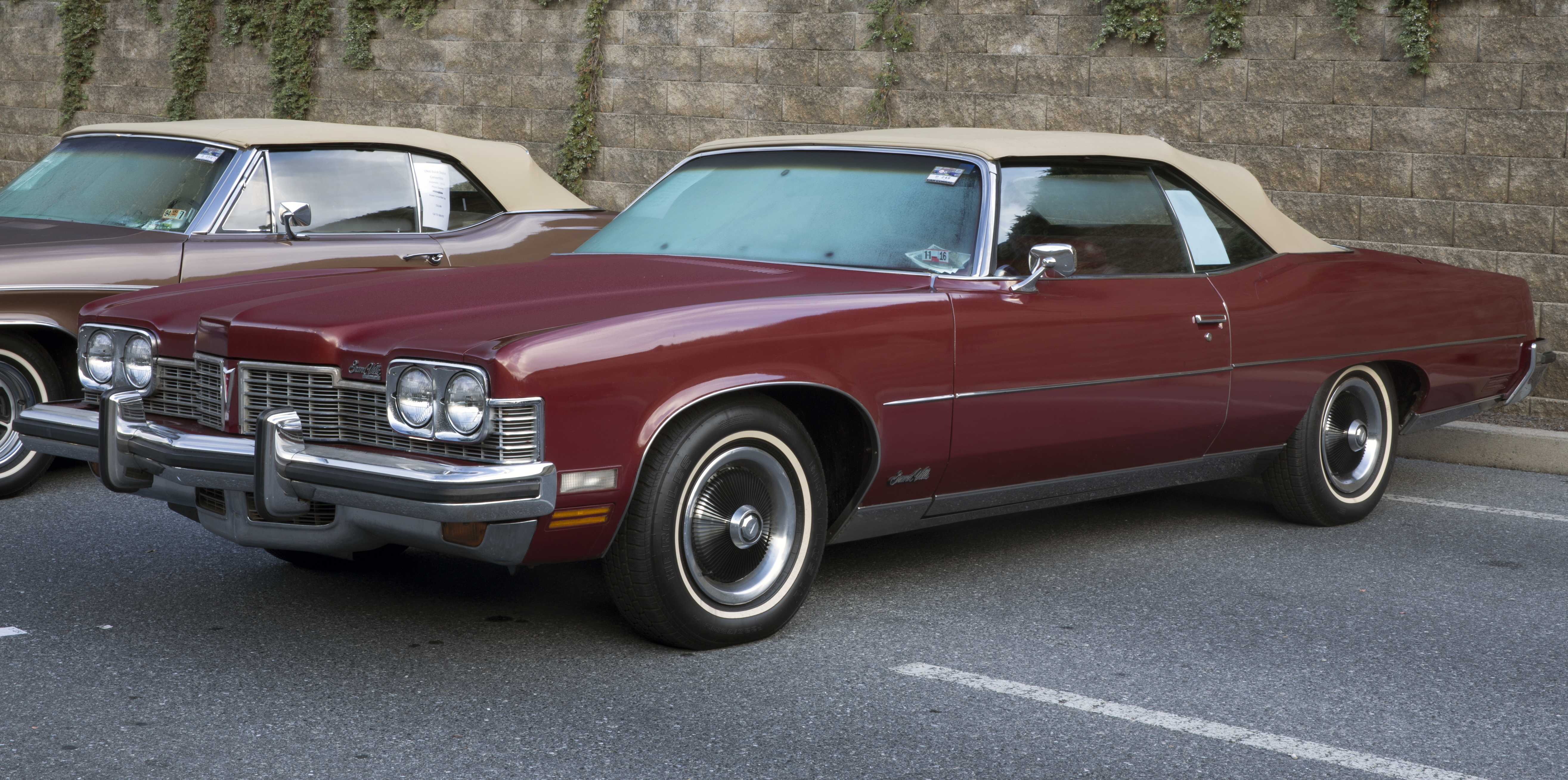 A 1973 Pontiac Grand Ville convertible offered for sale at Hershey 2019. 4-barrel 455 V8 engine (single exhaust, engine code "W") and an automatic transmission (duh), 65,000 miles, built in Pontiac, MI.